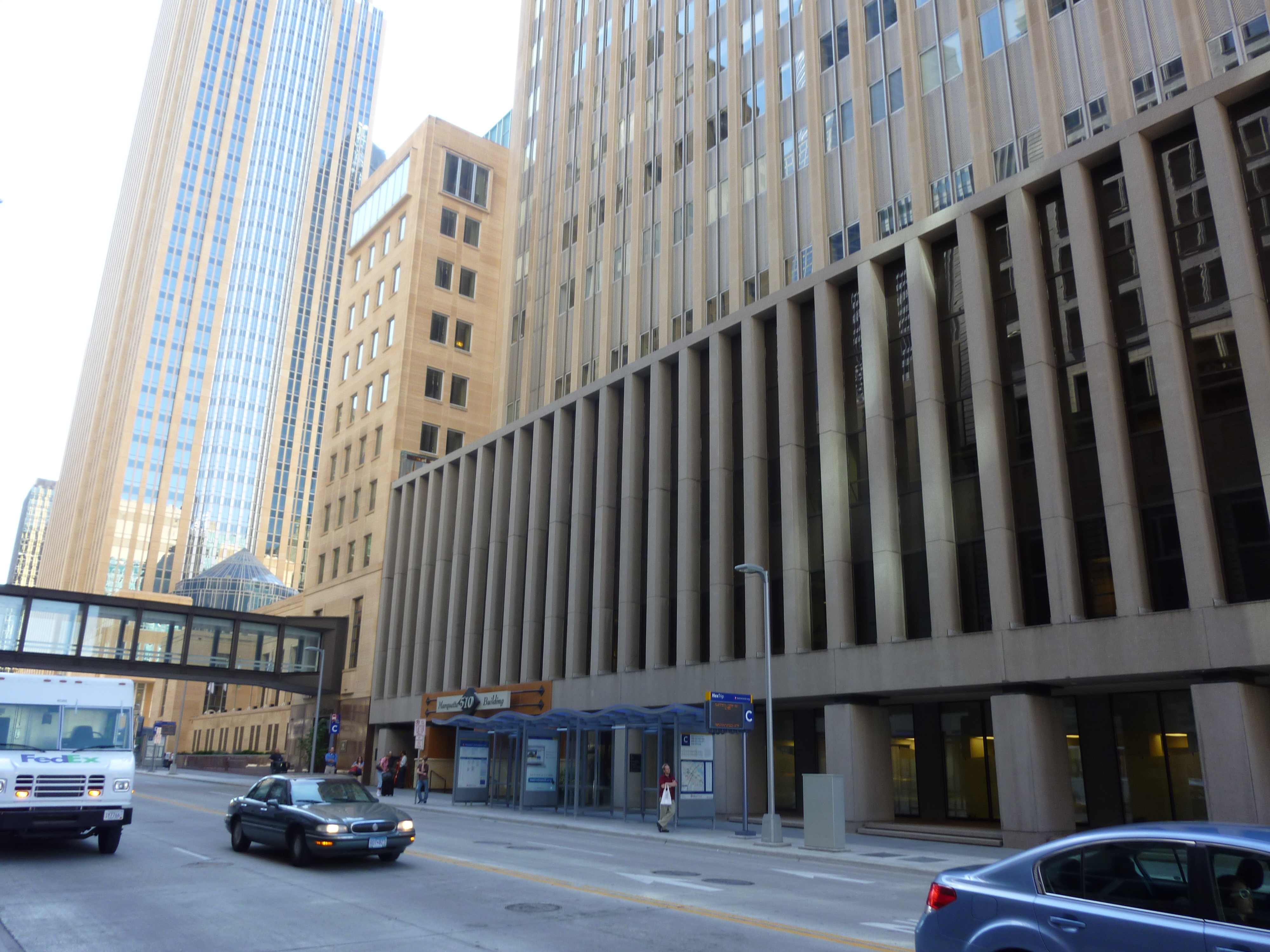 510 Marquette in downtown Minneapolis. Now renovated past recognition, but this was designed by Cass Gilbert and was the first (of three so far) building to contain the Federal Reserve Bank of Minneapolis